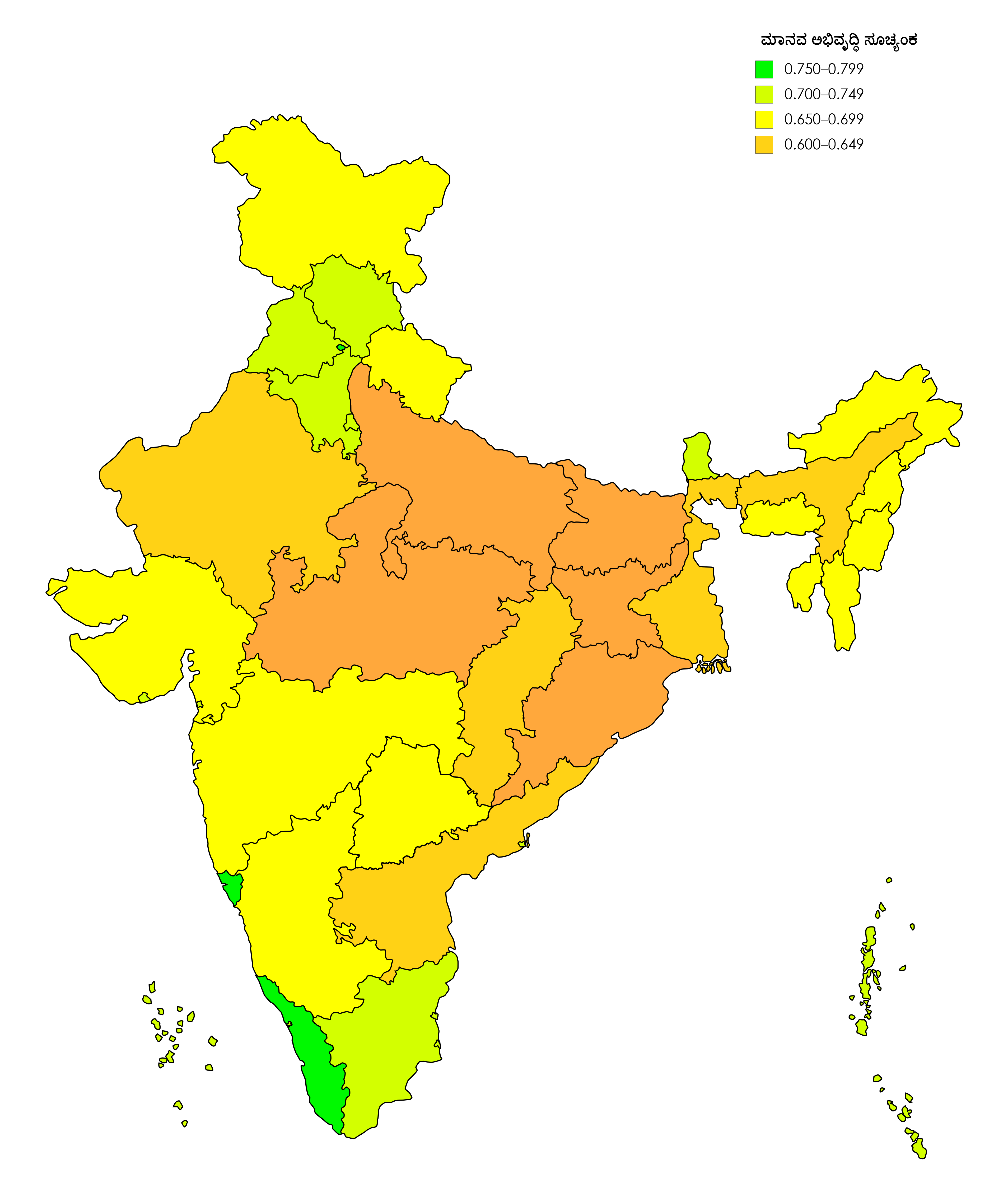 Human Development Index of Indian states and union territories 2018. ಕನ್ನಡ: ಭಾರತ ರಾಜ್ಯ ಮತ್ತು ಕೇಂದ್ರಾಡಳಿತ ಪ್ರದೇಶಗಳ ಮಾನವ ಅಭಿವೃದ್ಧಿ ಸೂಚ್ಯಂಕ (2018).